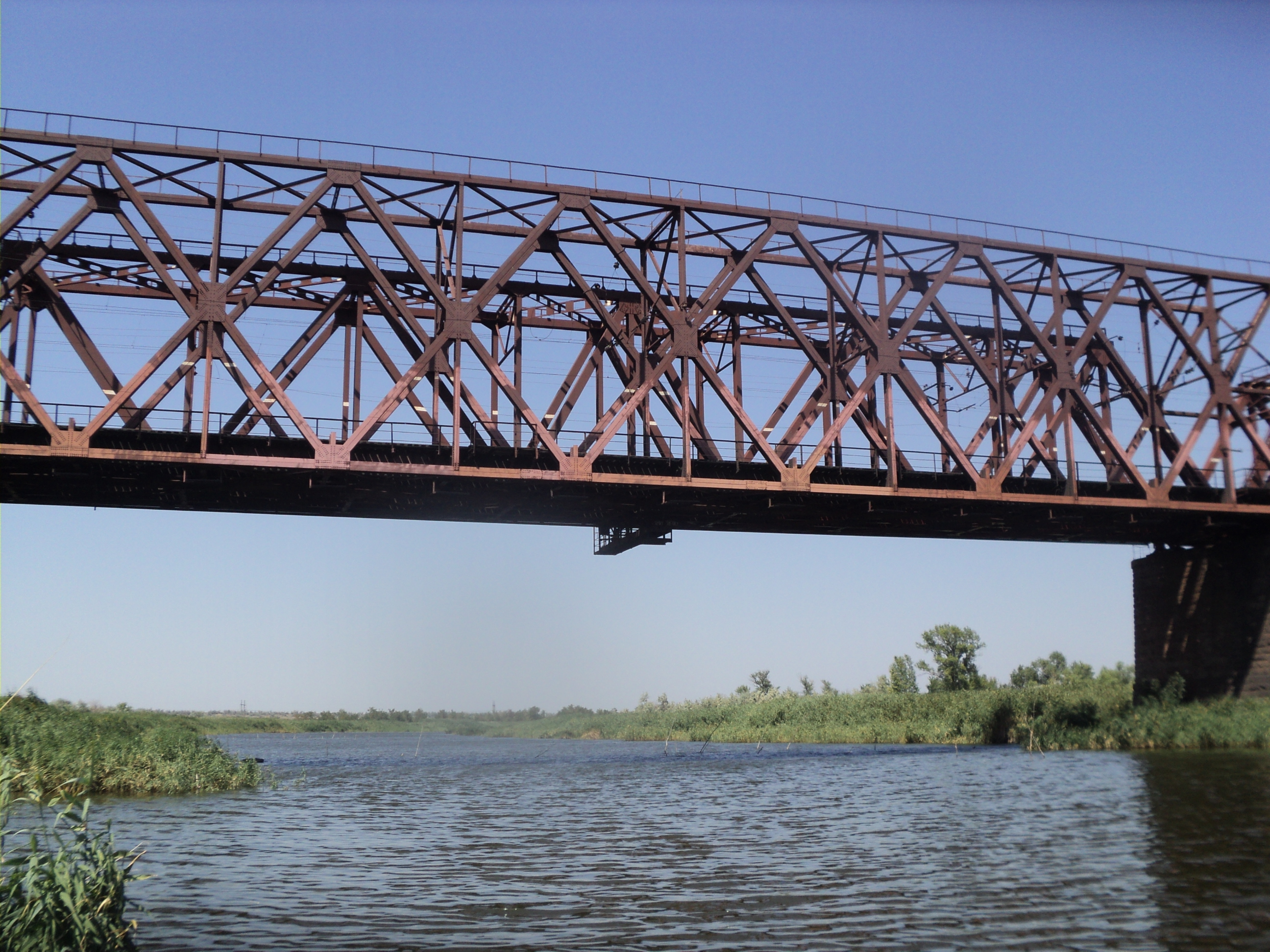 Bridge over Bazavluk